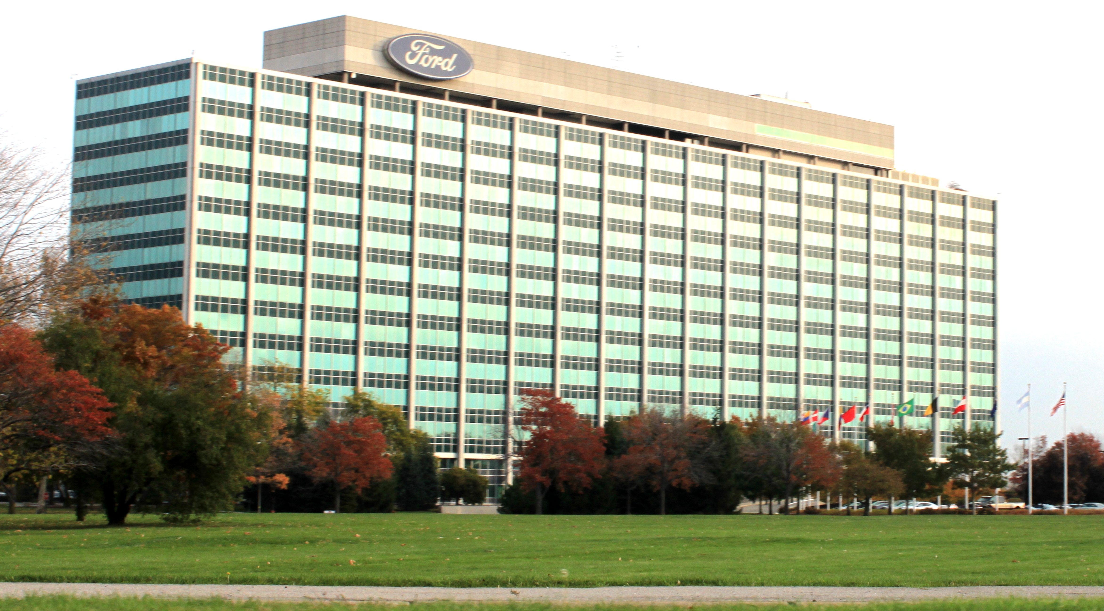 Ford World Headquarters, 1 American Road, Dearborn, Michigan